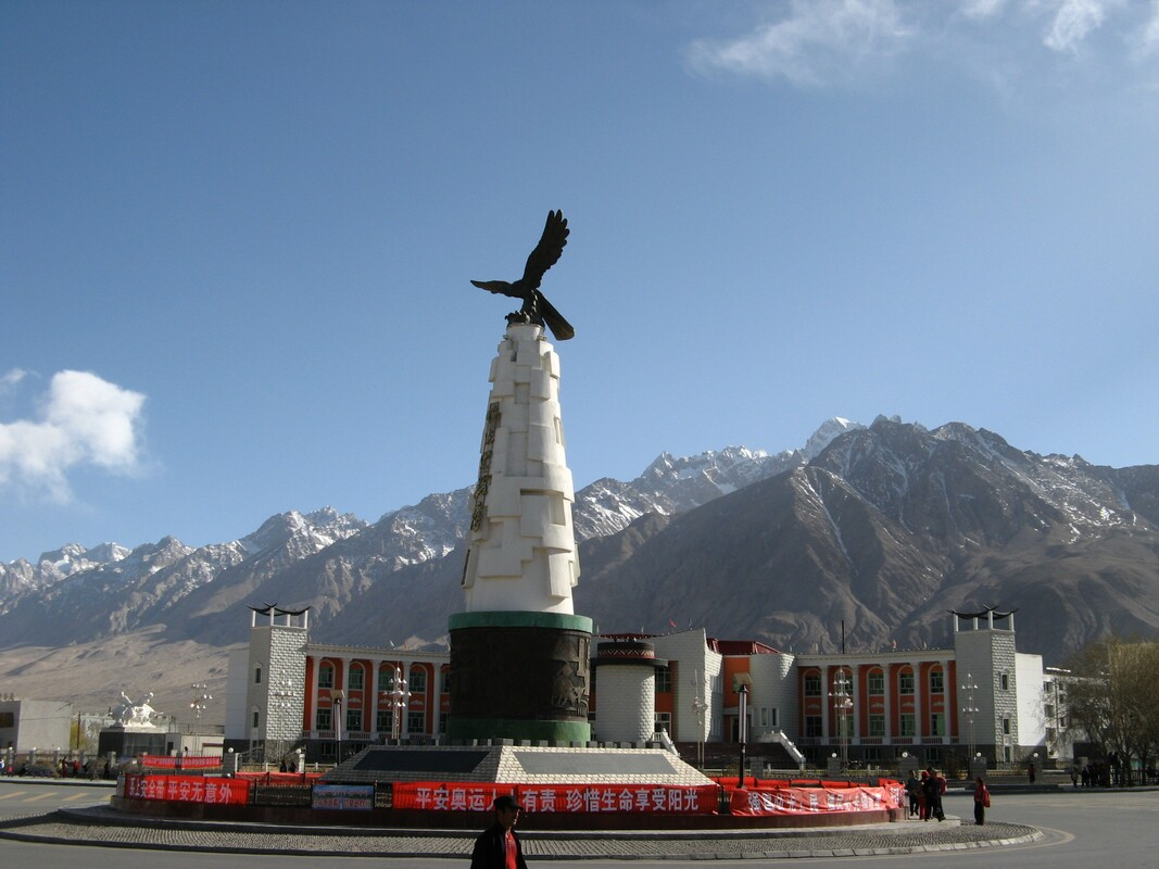 Tashkurgan town, on Karakoram Higway, Xinjiang, China